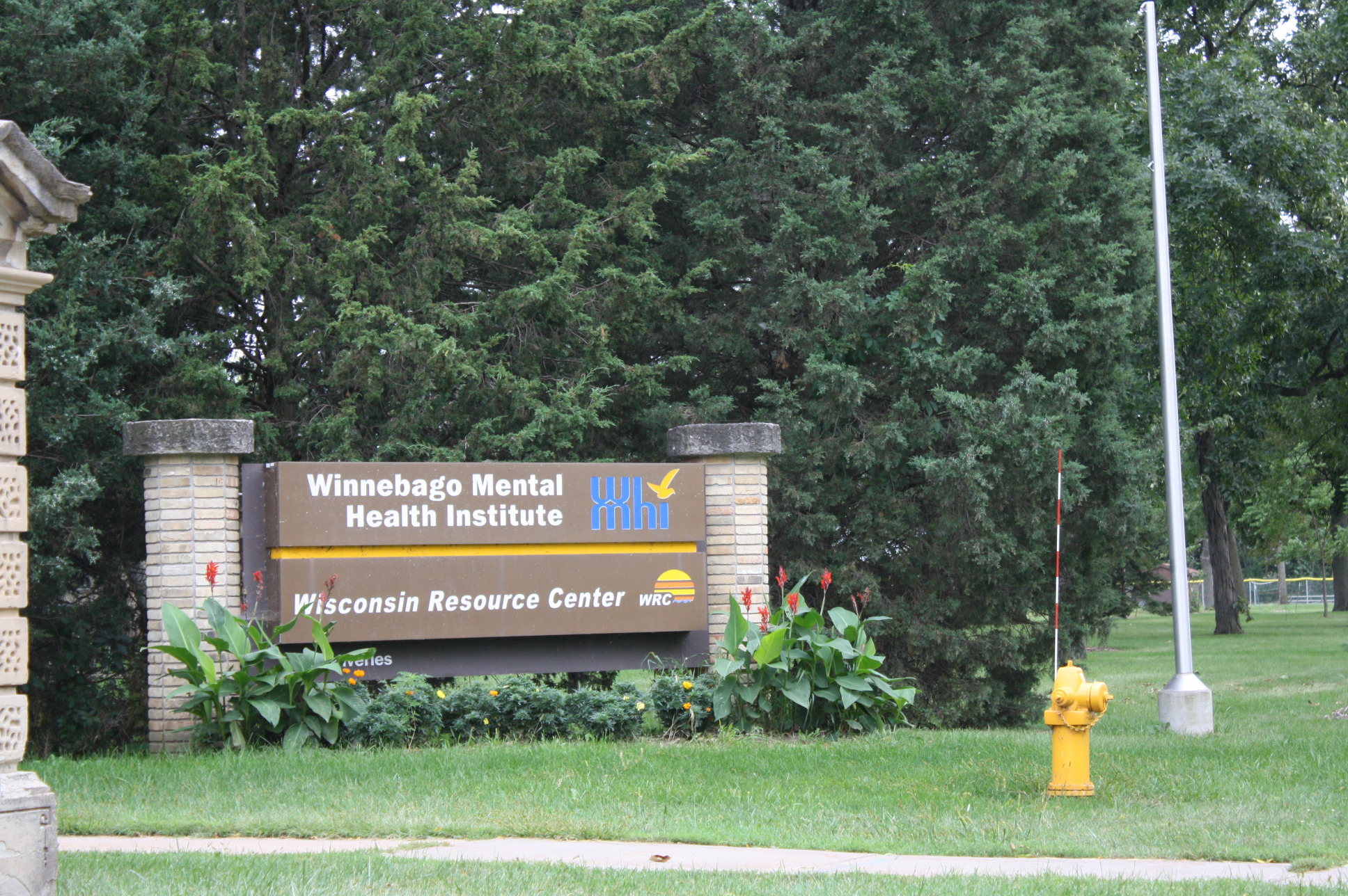 The welcome sign for the Winnebago Mental Health Institute in Winnebago, Wisconsin.